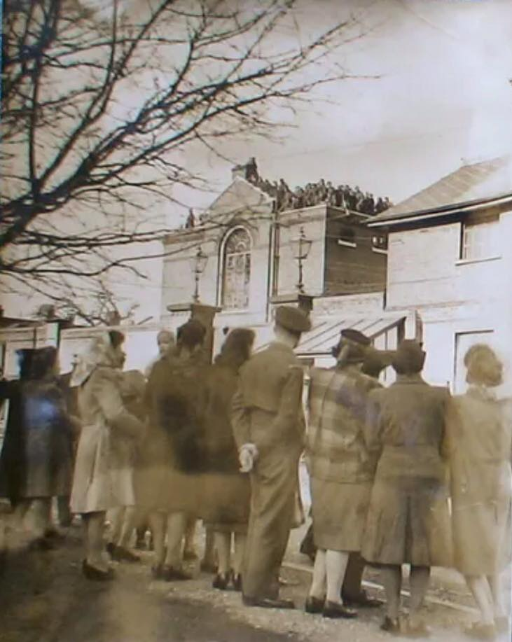 Photograph of the riot on the roof of the Aldershot Glasshouse in 1946